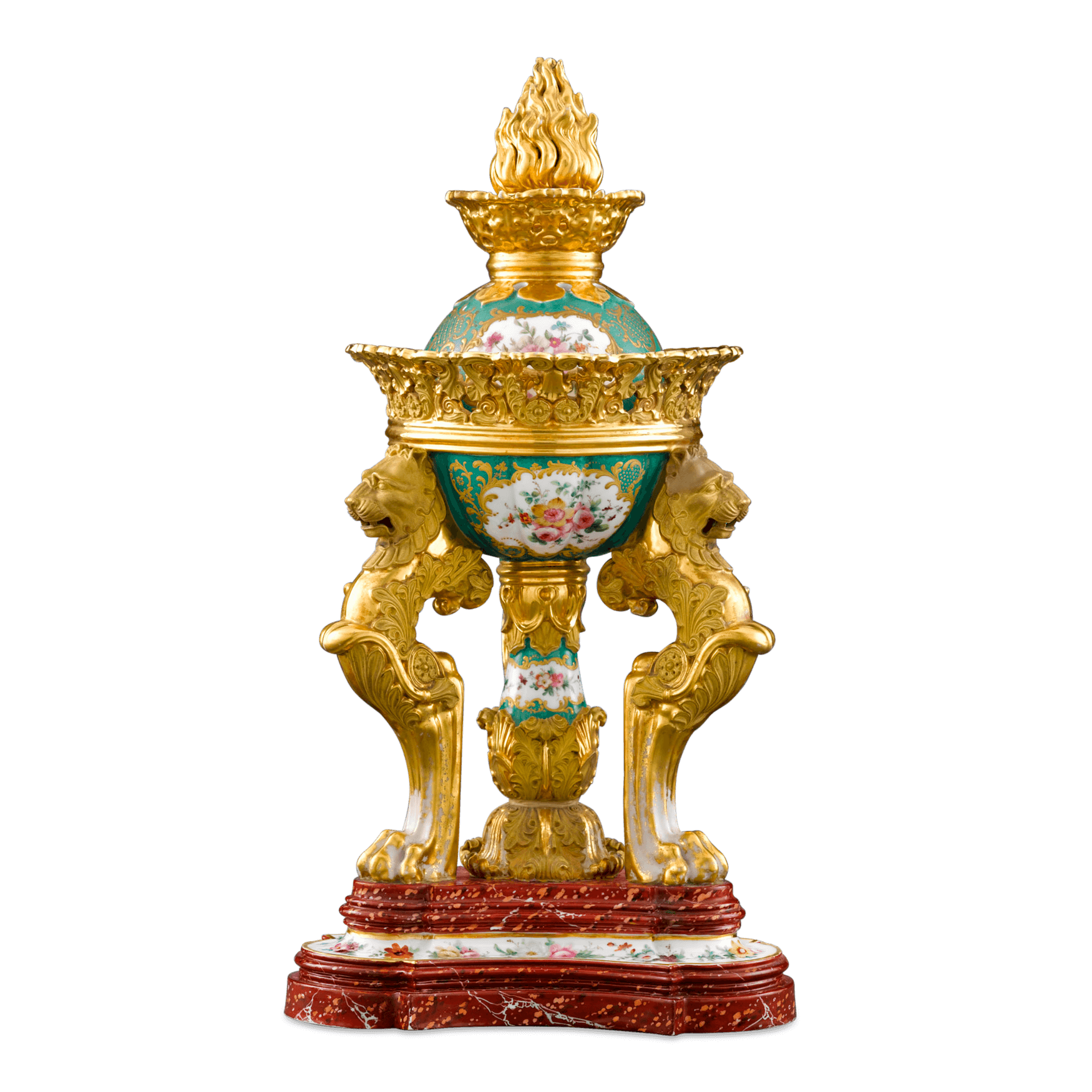 Jacob Petit Porcelain Brûle Parfum. Circa 1830.